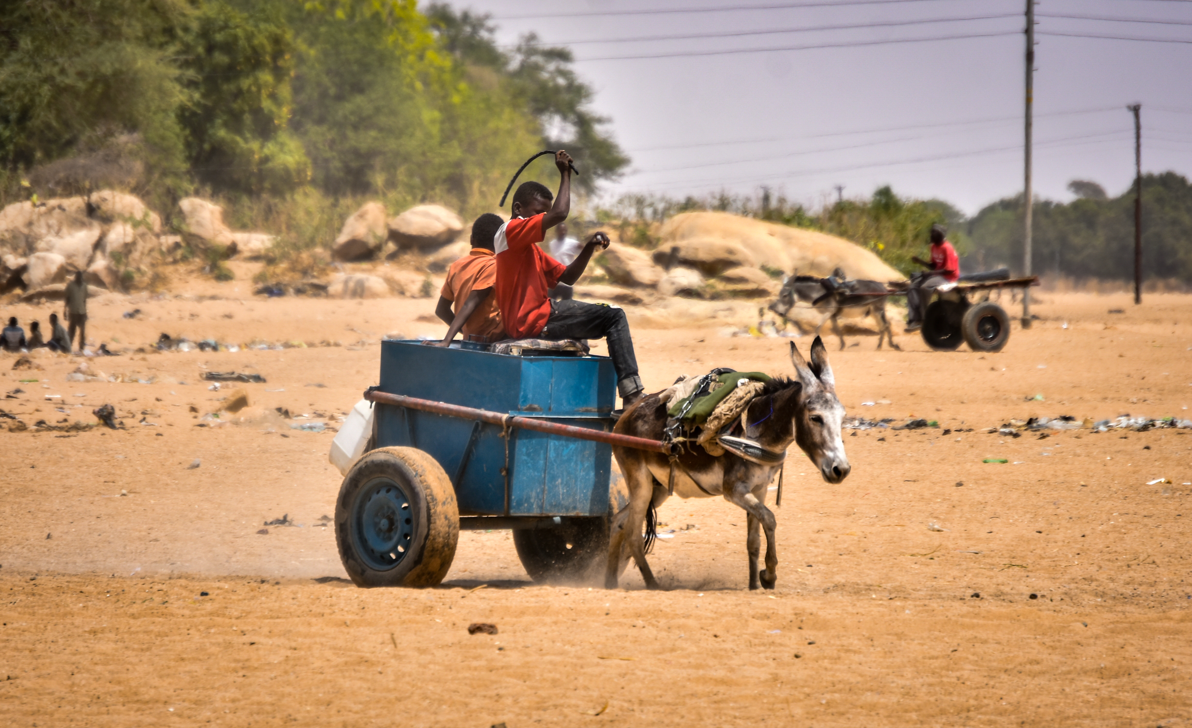 WLASudan2020 السودان ولاية جنوب دارفور . نيالا. وادي نيالا This is an image with the theme "Africa on the Move or Transport" from: Sudan